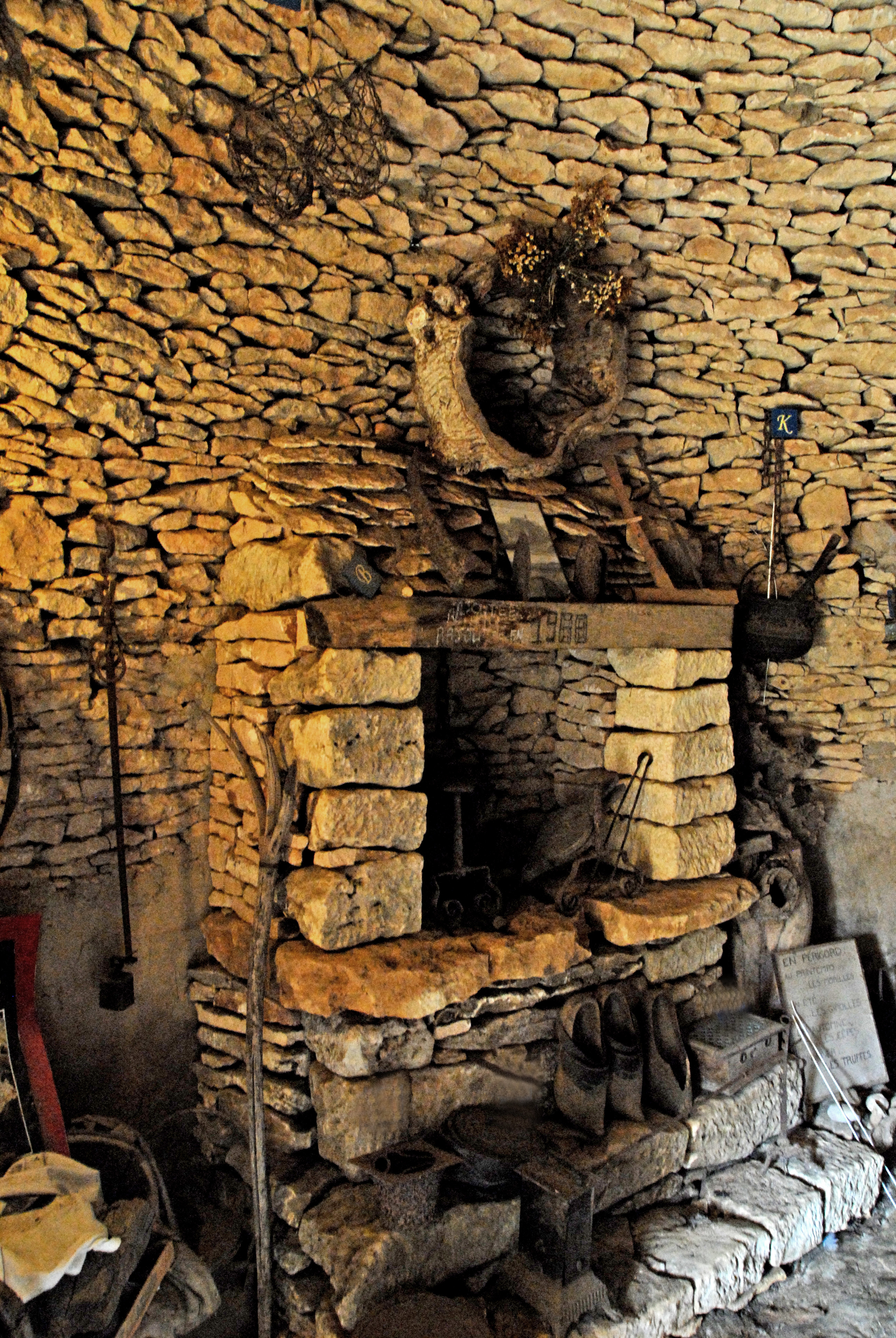 Fake fireplace erected in 1988 inside a dry stone hut at the place known as Calpalmas at Saint-André-d'Allas, Dordogne, France.